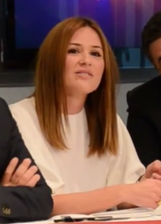 Sílvia Alberto em 2015